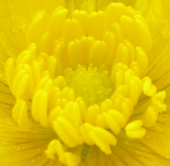 Creeping buttercup (Ranunculus repens) in Fox Roost, Nfld, Canada.